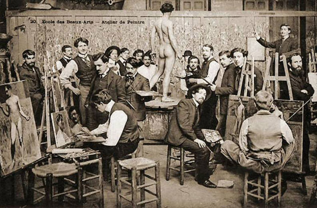 Photograph titled in French Ecole des Beaux-Arts - Atelier de Peintre (School of Fine Arts - Painter Workshop). Showing students painting "from life".